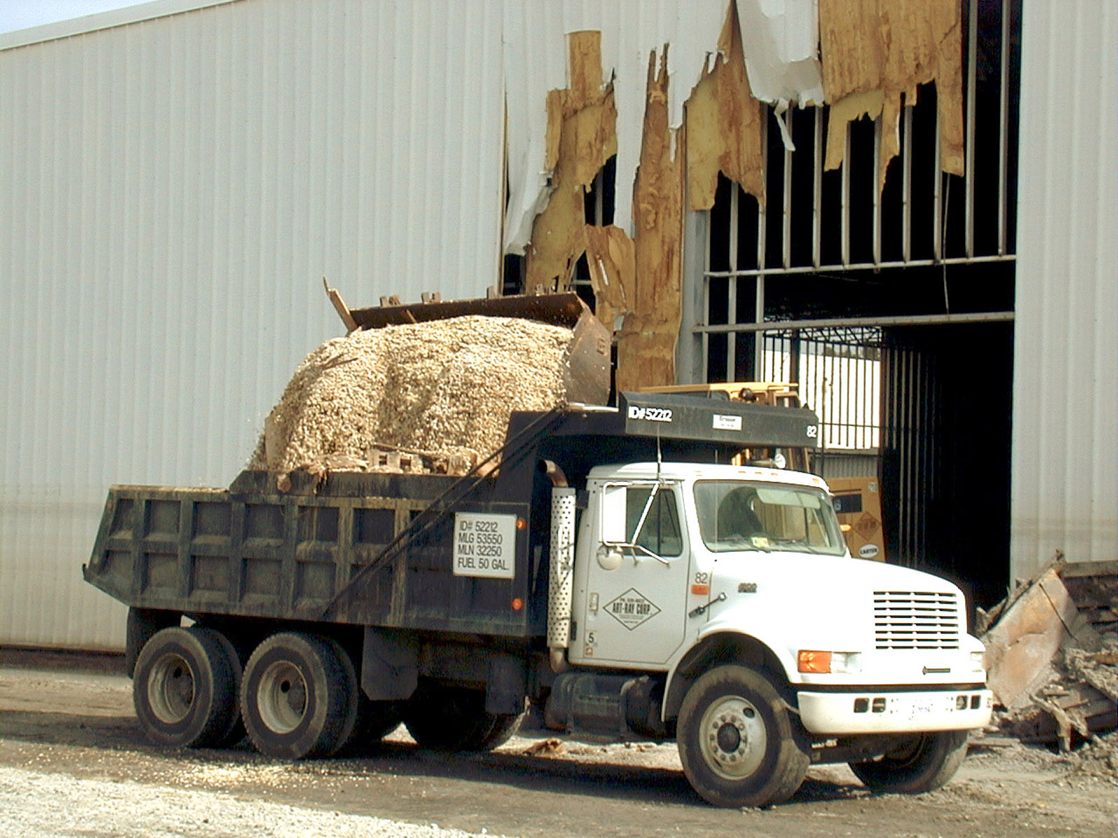 Franklin, VA 9/29/99 -- Waterlogged, rotten peanuts are ready for removal from warehouse in Frankiln. Photo by: Liz Roll/FEMA News Photo Restrictions Below Apply: Mandatory Credit (no charge for photo)